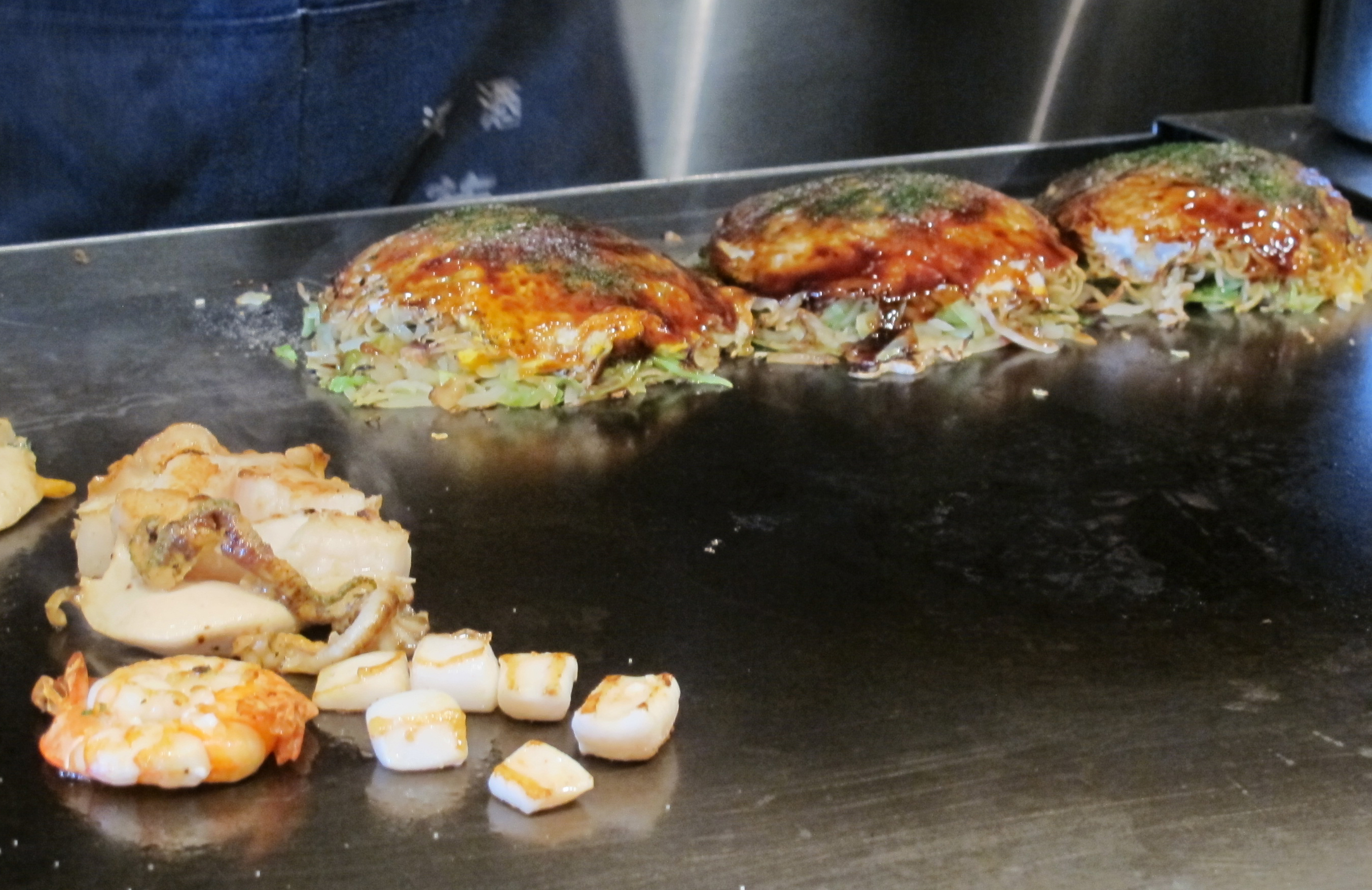 Preparation of okonomiyaki in shimo kitazawa